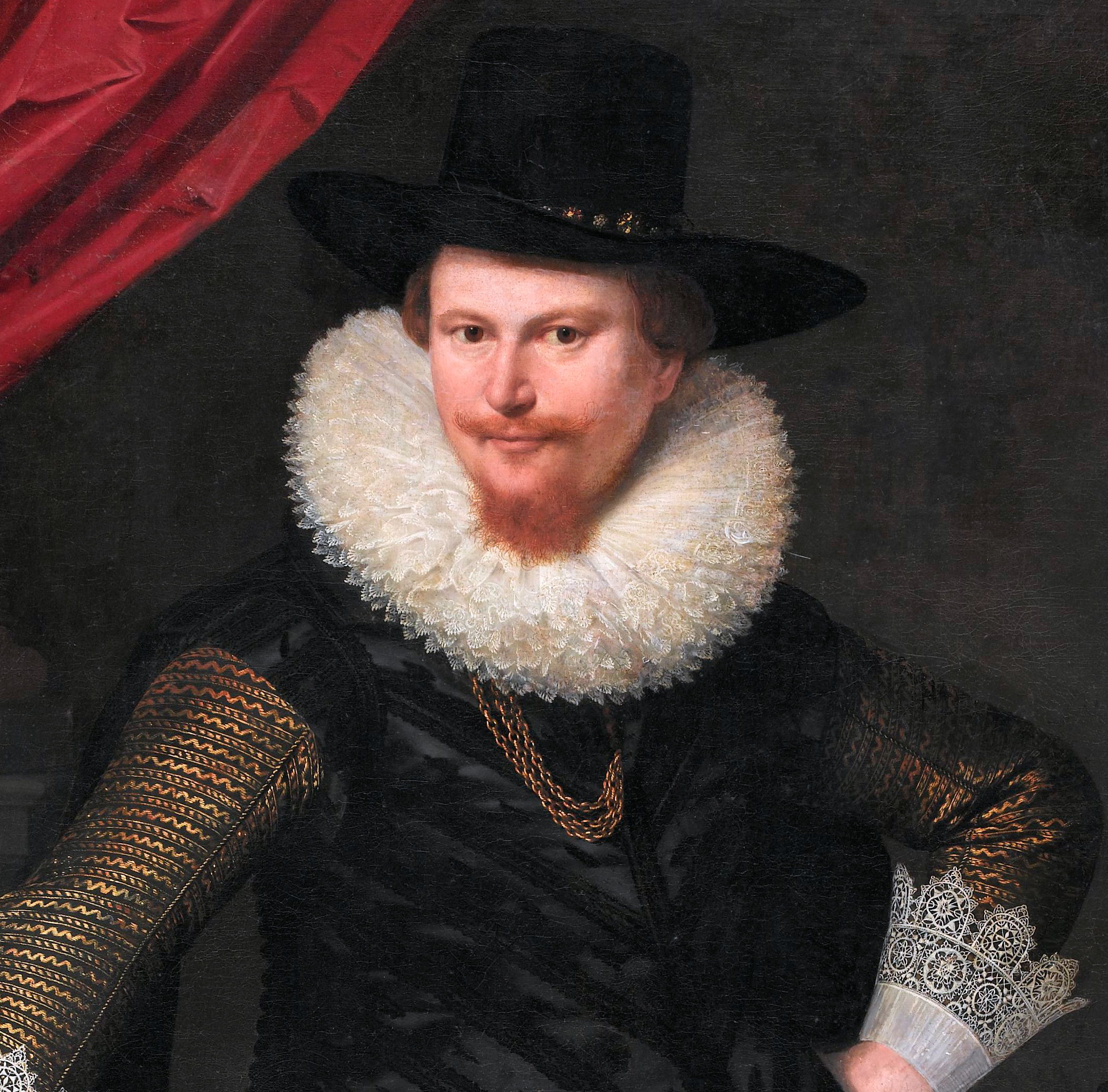 Portrait of Laurens Reael, governor-general of the Dutch East Indies. At full length. Pendant of a portrait of his wife, Suzanna Moor (1608-1657).